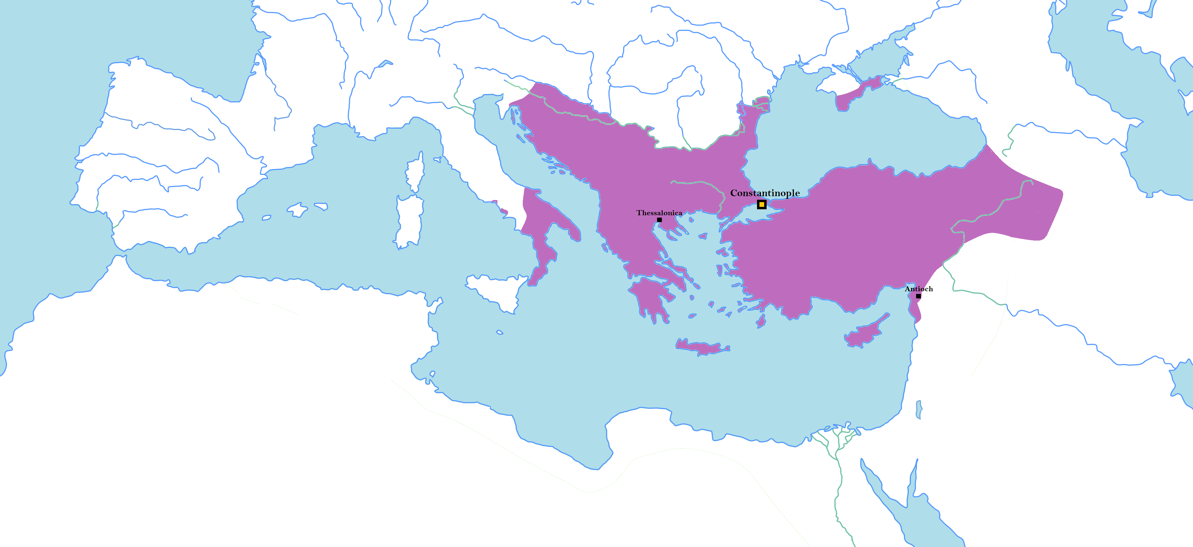 Map of the Byzantine Empire in 1025 AD